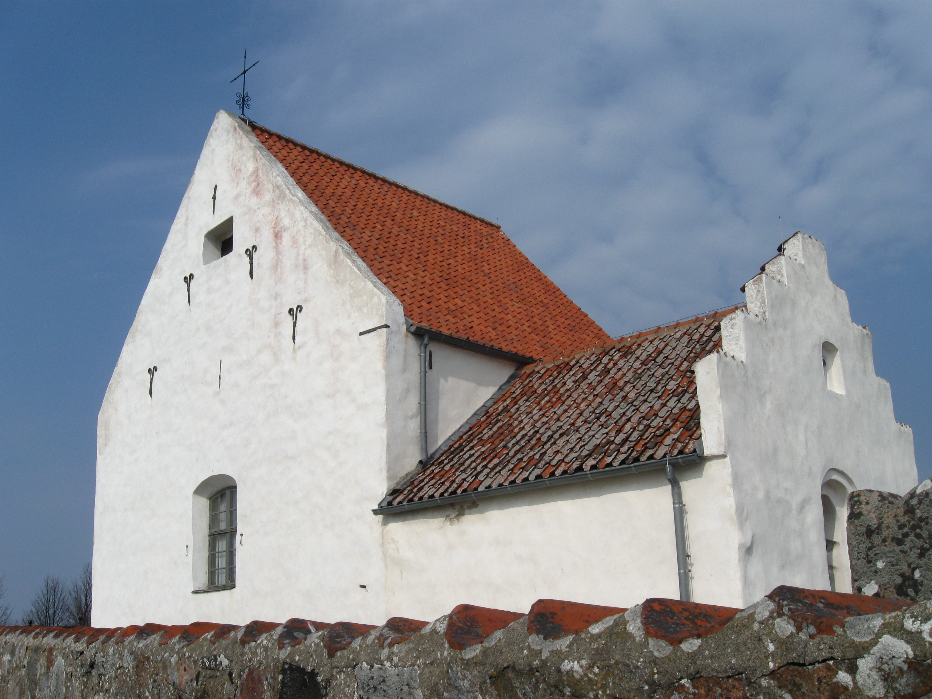 St Ibb's church, located on the island of Ven in Sweden